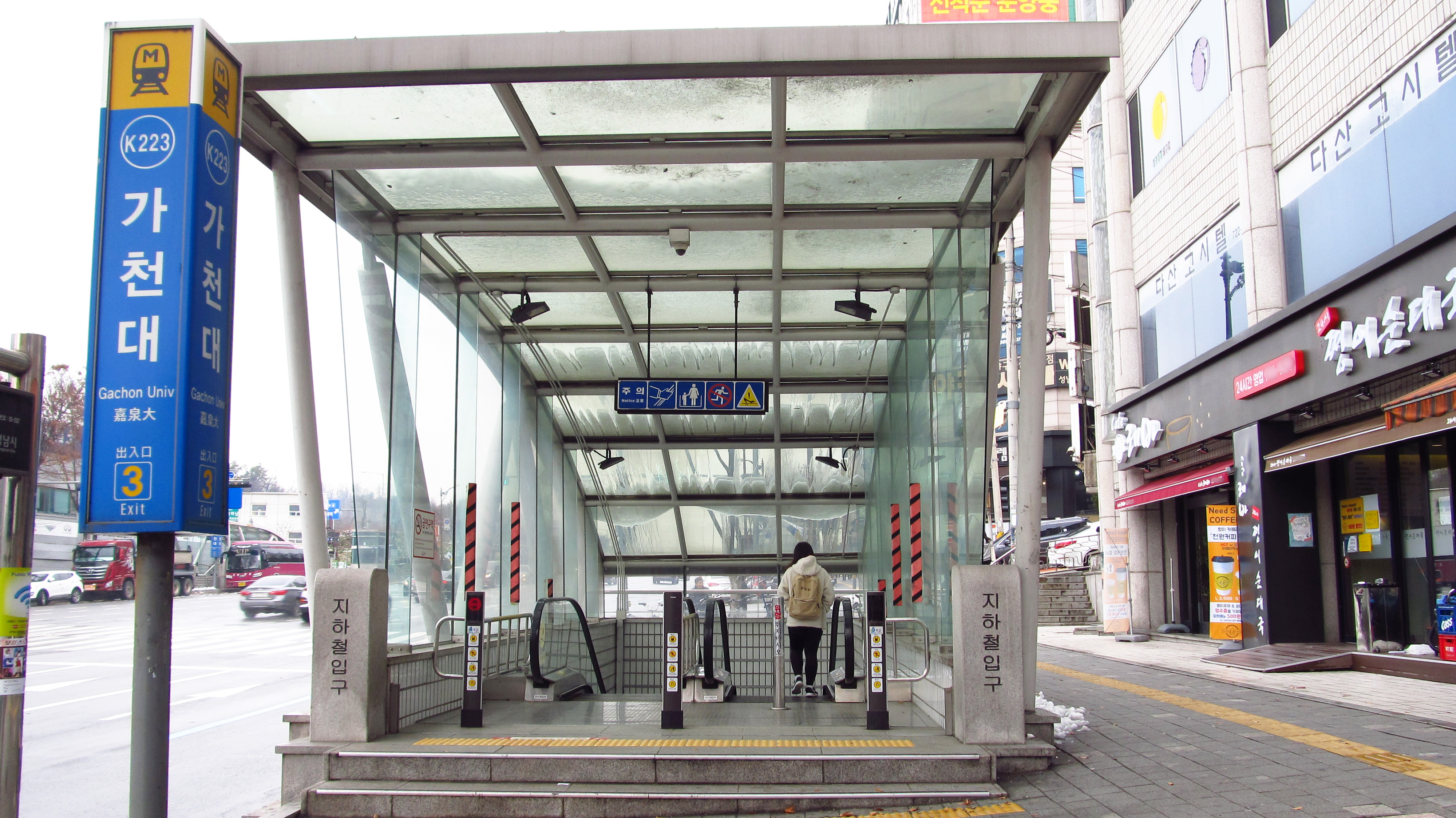 The no.3 entrance to Gachon University Station on Bundang Line in Seongnam city, Gyeonggi-do(province), Republic of Korea(South Korea)